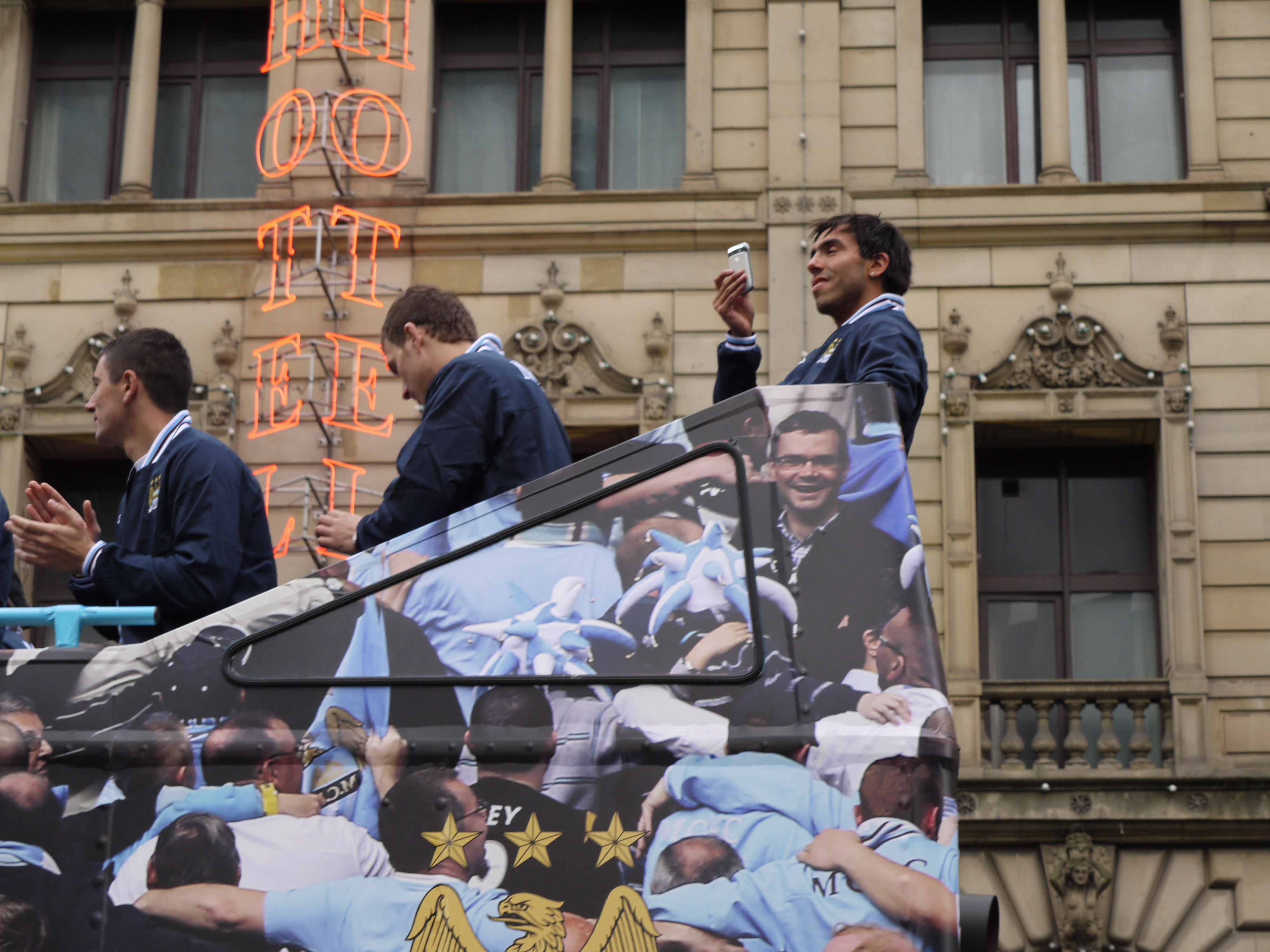 Manchester City FC. FA Cup Winners 2011